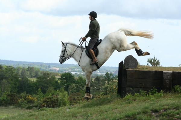 Leaping off the step into thin air